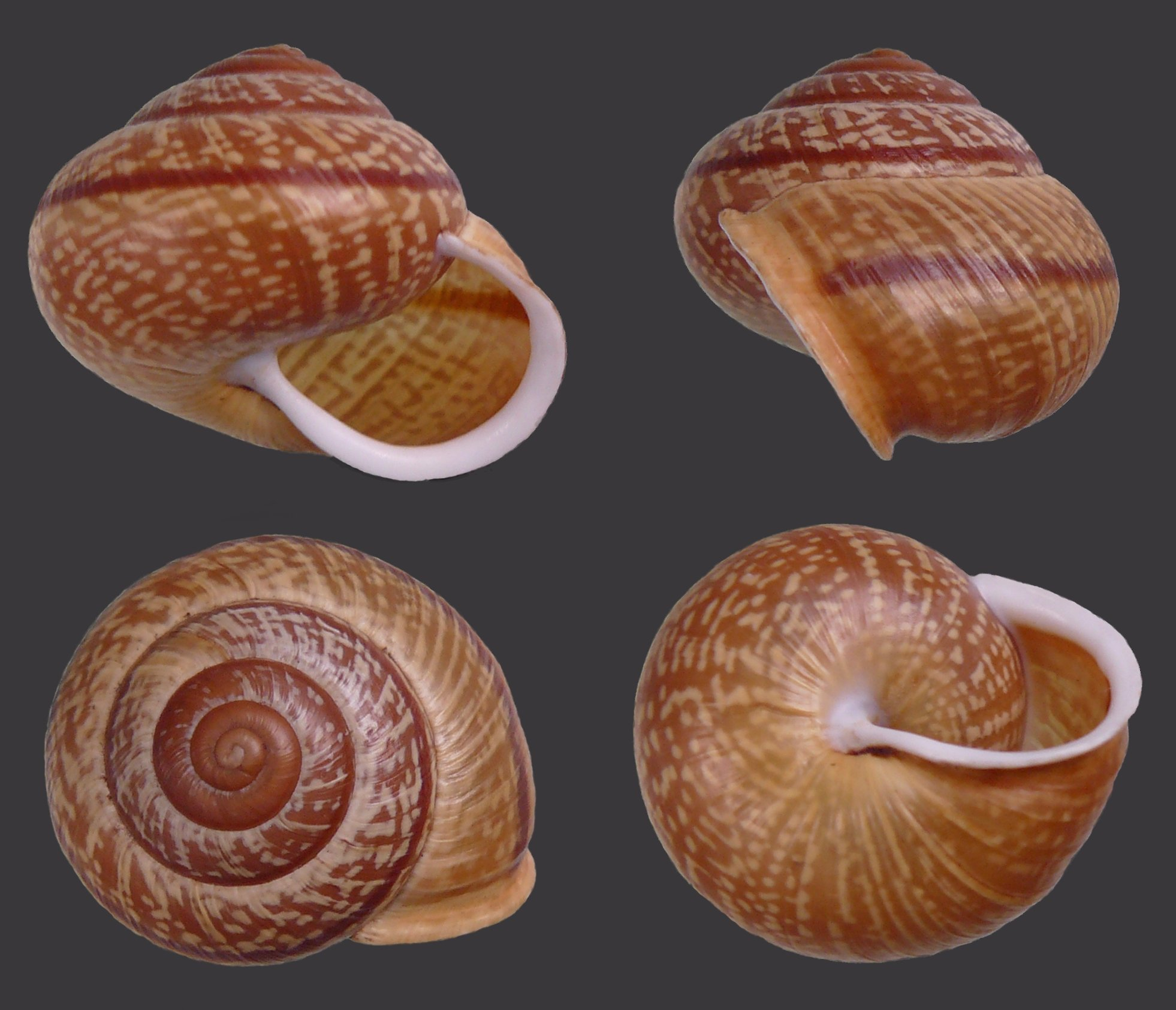 Arianta arbustorum; Pulmonate land snail species from city walls of Braunau, Austria, september 1968.